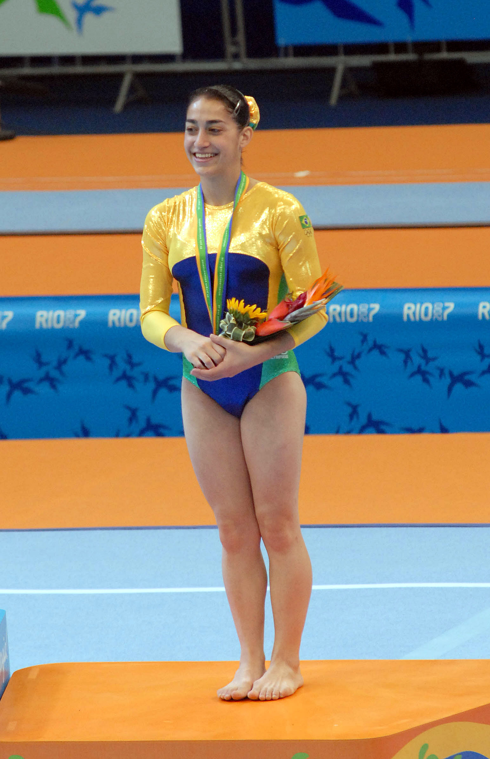 Daniele Hypólito, balance beam bronze medalist - Rio 2007